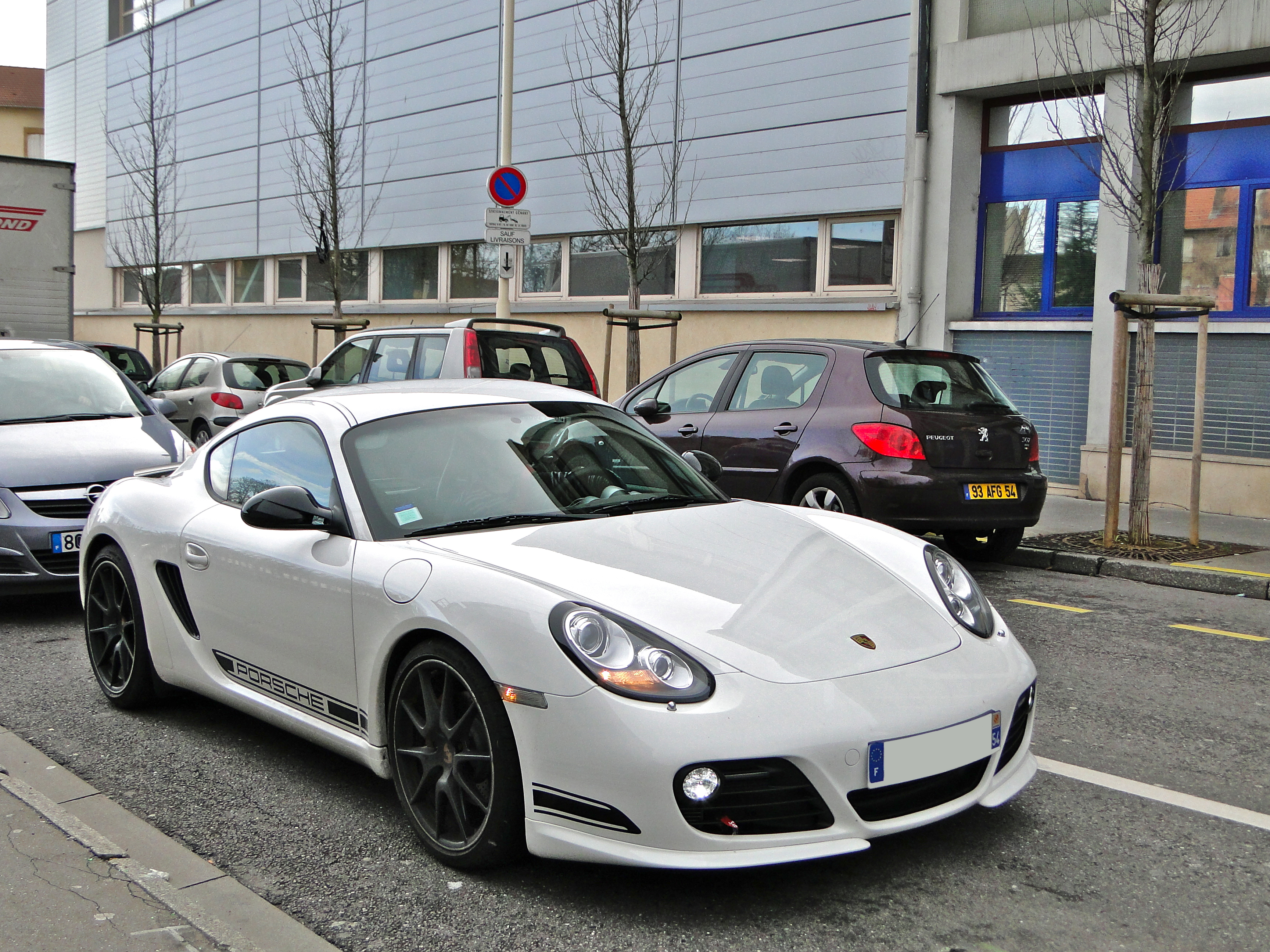 Porsche Cayman R